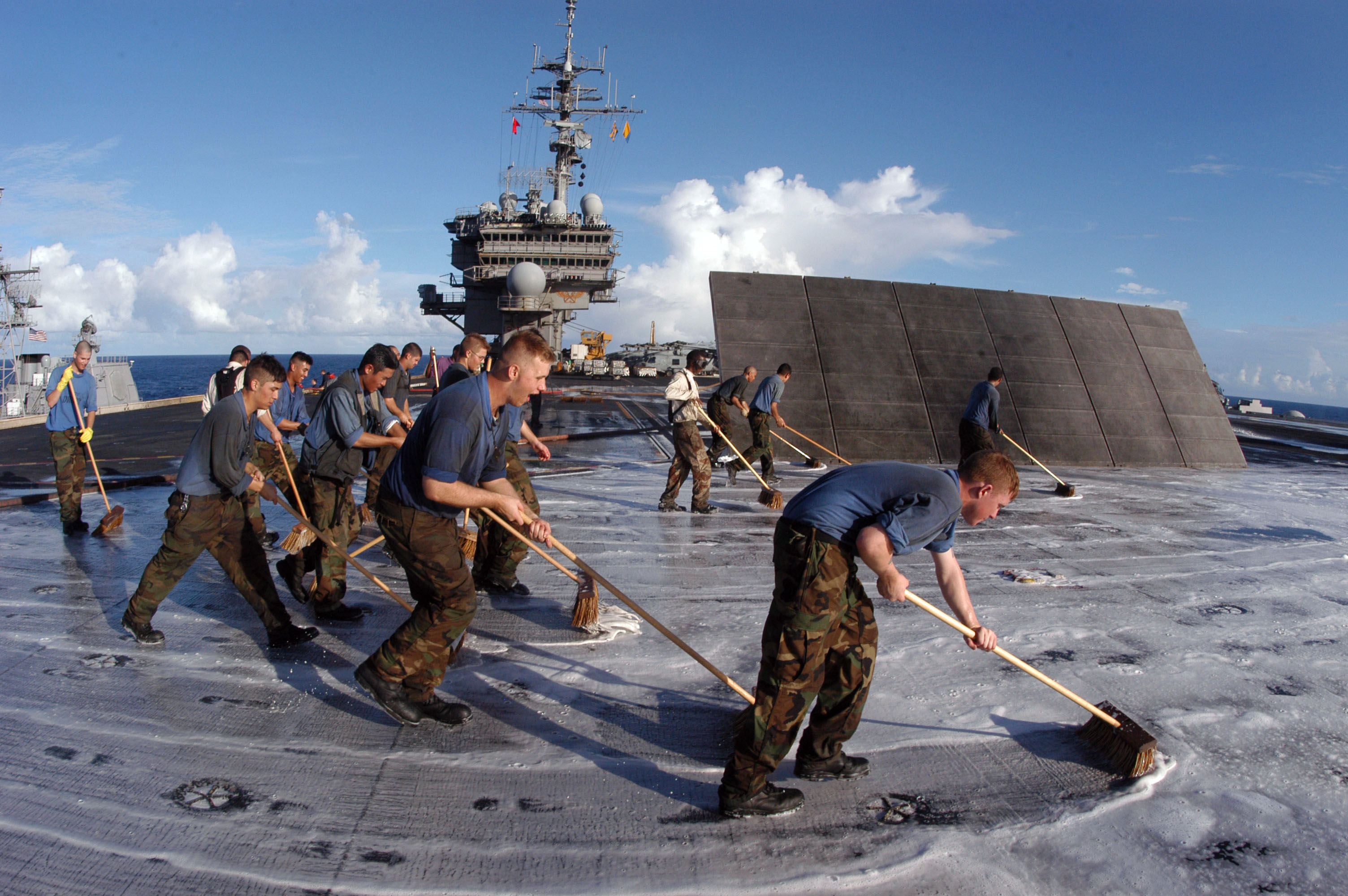 Pacific Ocean (Sept. 4, 2004) - Sailors aboard the conventionally powered aircraft carrier USS Kitty Hawk (CV 63) perform a "Scrub Ex," the cleaning of the flight deck, after the completion of Carrier Air Wing Five (CVW-5) fly-off evolution. Scrub Ex's helped maintain traction on the flight deck surfaces for planes and support equipment. Currently under way in the 7th Fleet area of responsibility (AOR), Kitty Hawk demonstrates power projection and sea control, as the U.S. Navy's only permanently forward-deployed aircraft carrier, operating from Yokosuka, Japan. U.S. Navy photo by Photographer's Mate Airman Jason D. Landon (RELEASED)